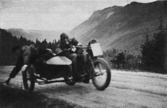 Tatra Rally, Poland, August 1927.